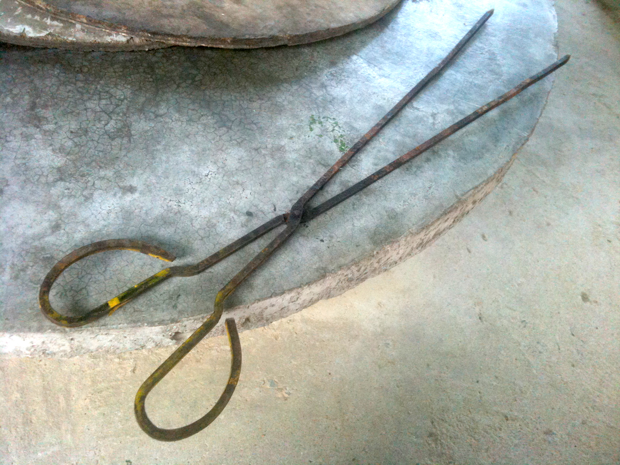 Fohkim (火鉗) is some type of plier or clamp for picking burning woods or hot coal.